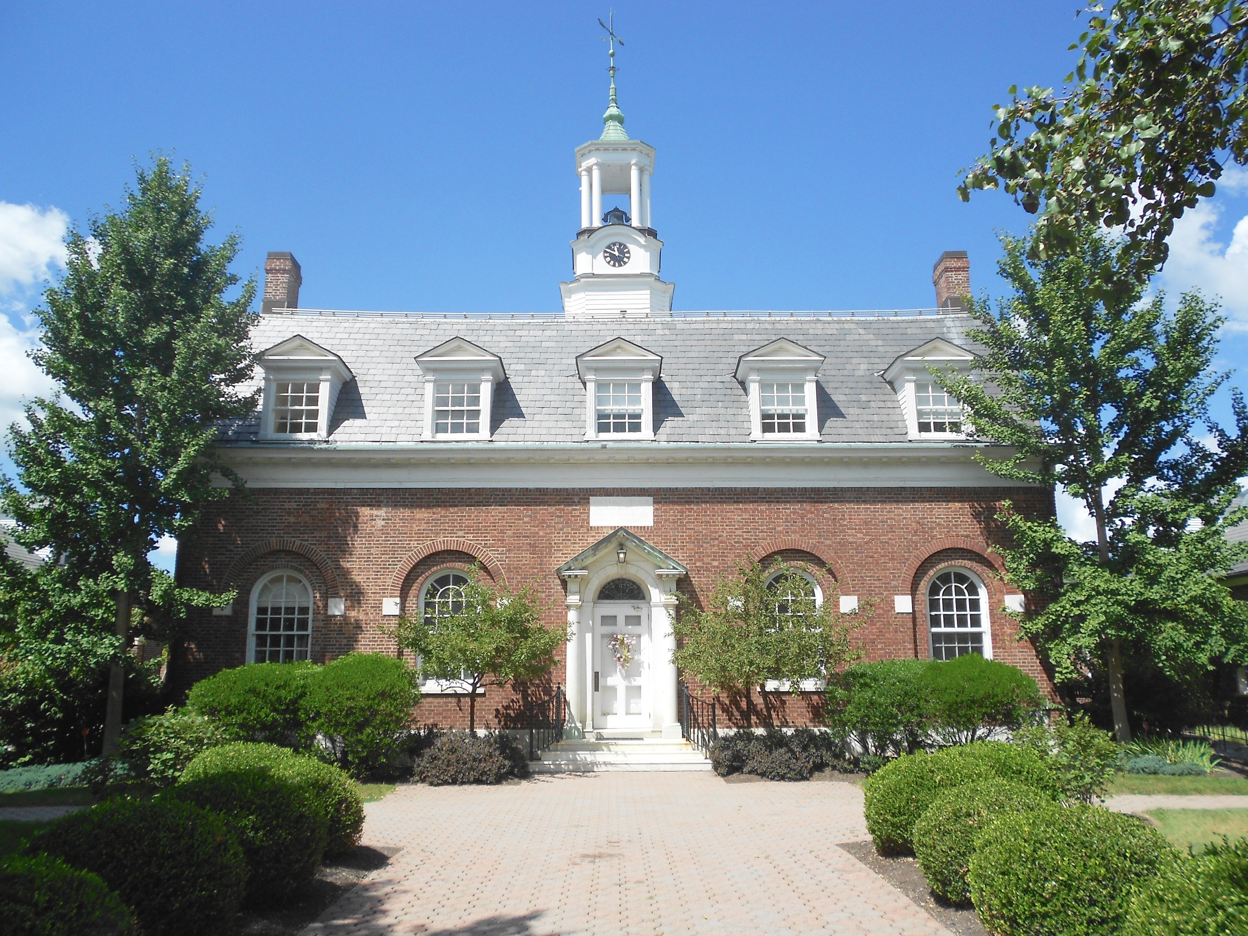 Waverly Community House in Waverly Township, Lackawanna County, Pennsylvania. (Sometimes called Abington Township, apparently because East, West, North, and South Abington Townships surround it). This is the nicest community center that you'll ever see. There is a library and a thrift shop in wings off to the side. A post office in back as well as tennis courts and playground in back. Probably more as well.